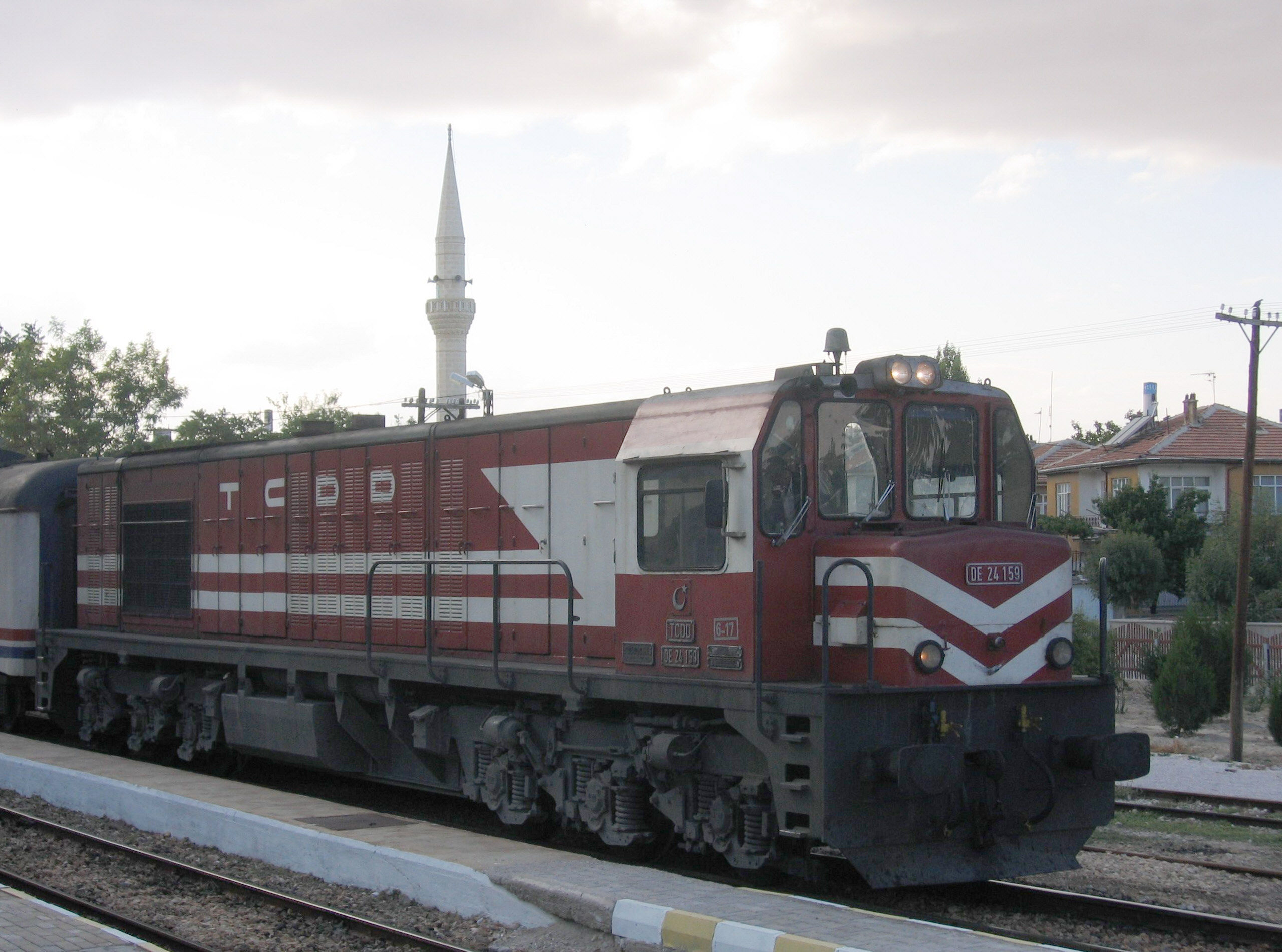 İç Anadolu Mavi Treni (Central Anatolia Blue Train) with a DE24159 engine in Karaman station.